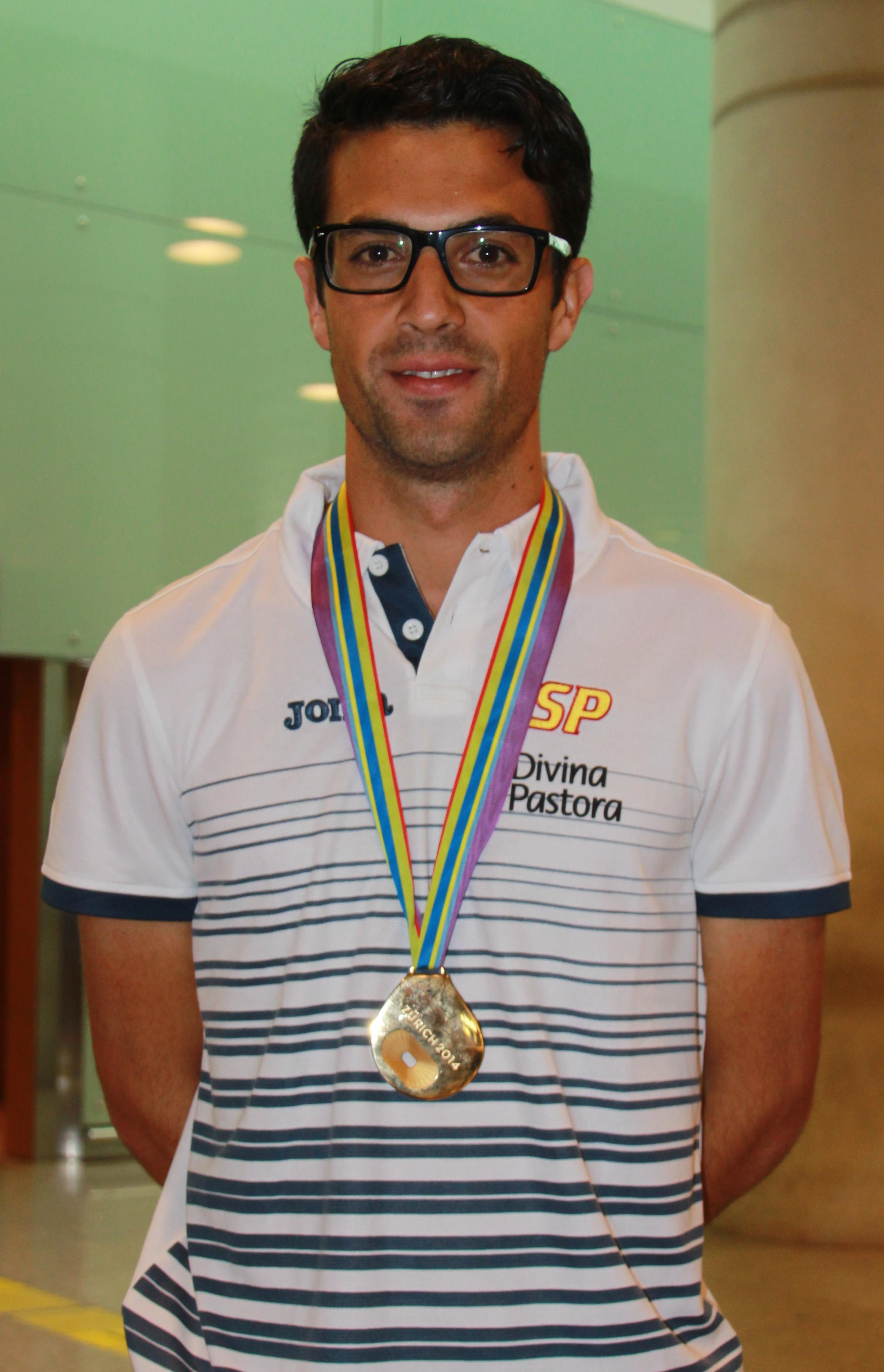 Miguel Angel Lopez, European racewalking champion Zurich 2014. Photography taken on arrival at Barcelona airport.